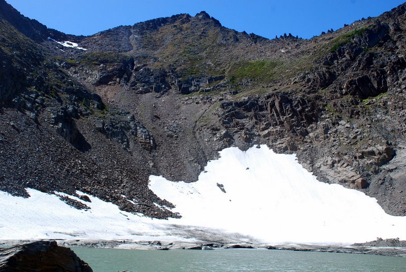 View of Cup Lake looking up at Deadhorse Pass (upper right dip in ridge).